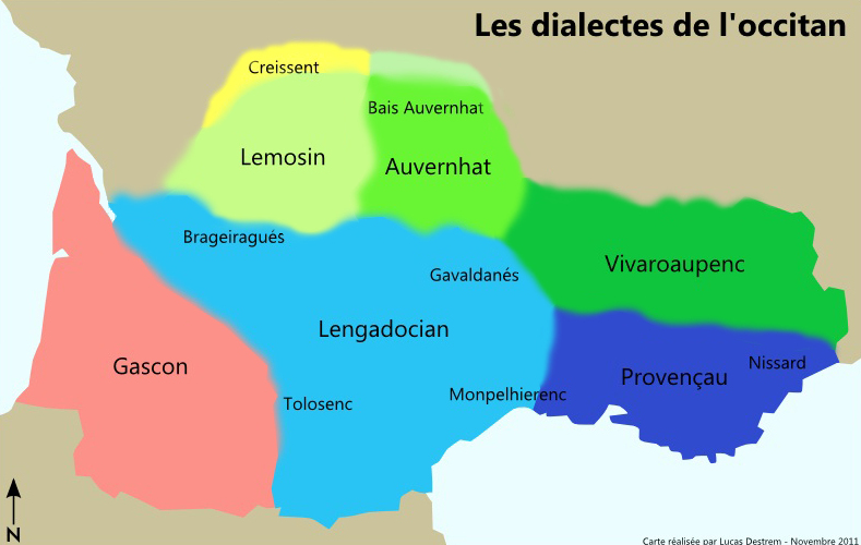 Author: gavach Dialect of occitan with the traditional dialectal division and some sub-dialects.